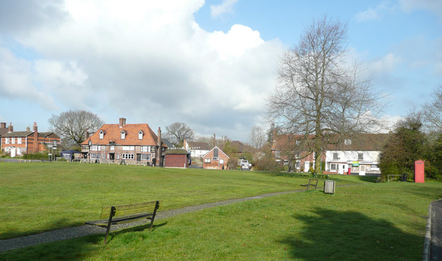 High Halden village green The Chequers, centre left, and the village shop (closed), centre right.